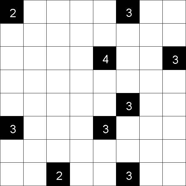 Shakashaka grid